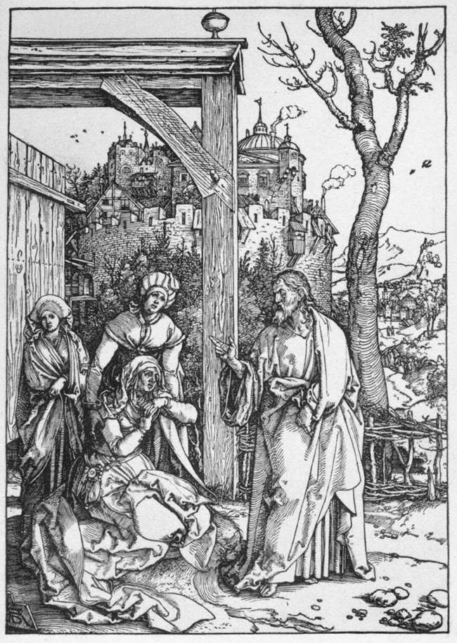 Part of the series The Life of the Virgin.